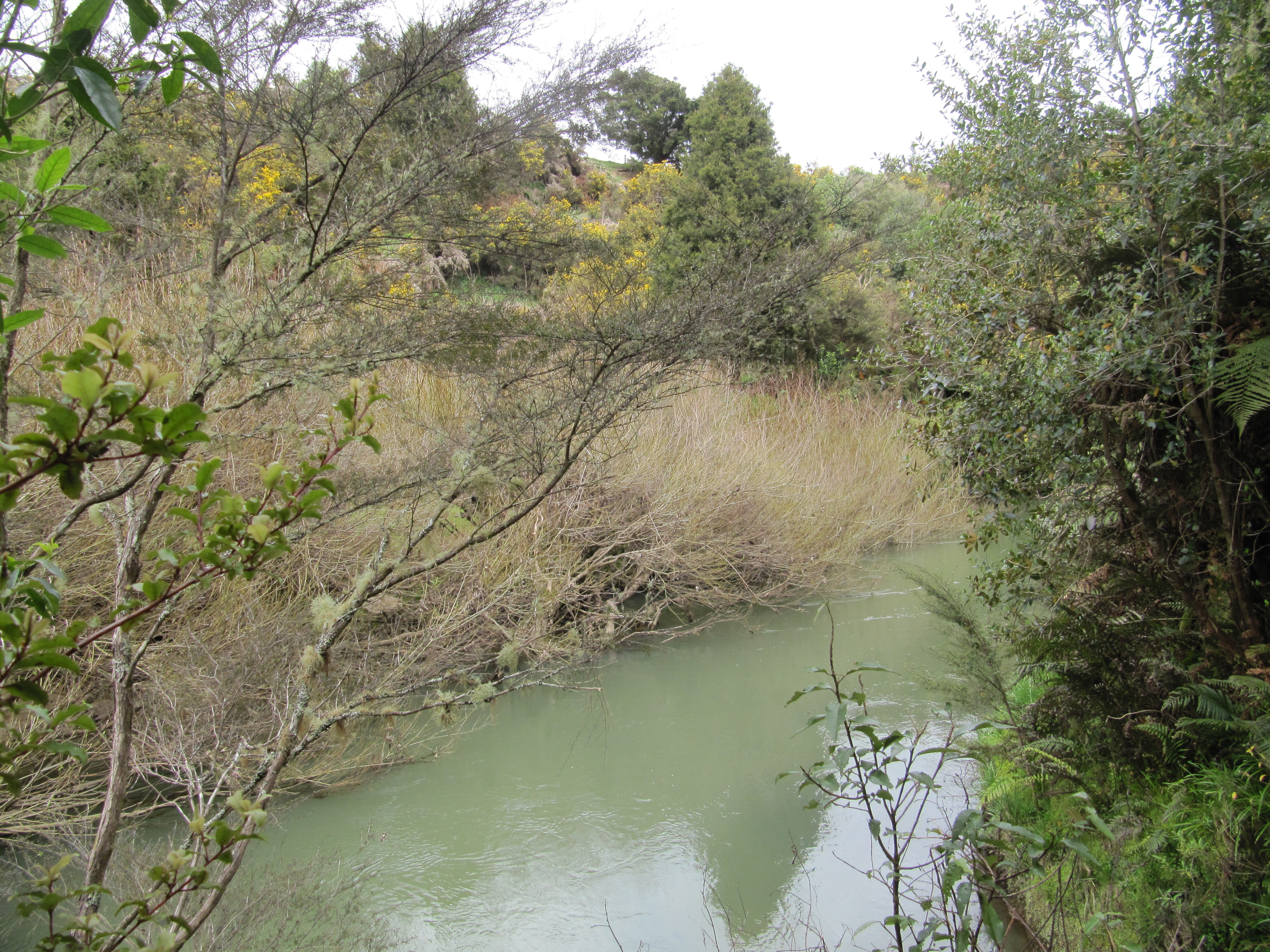 turbid water